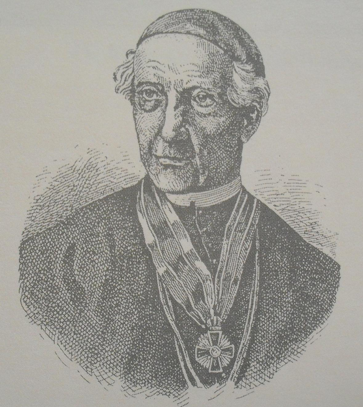 Ignac Kristijanović (Kriztianovich) prebend and bishop of Zagreb, Kajkavian author, translator. Born 1796, death 1884.